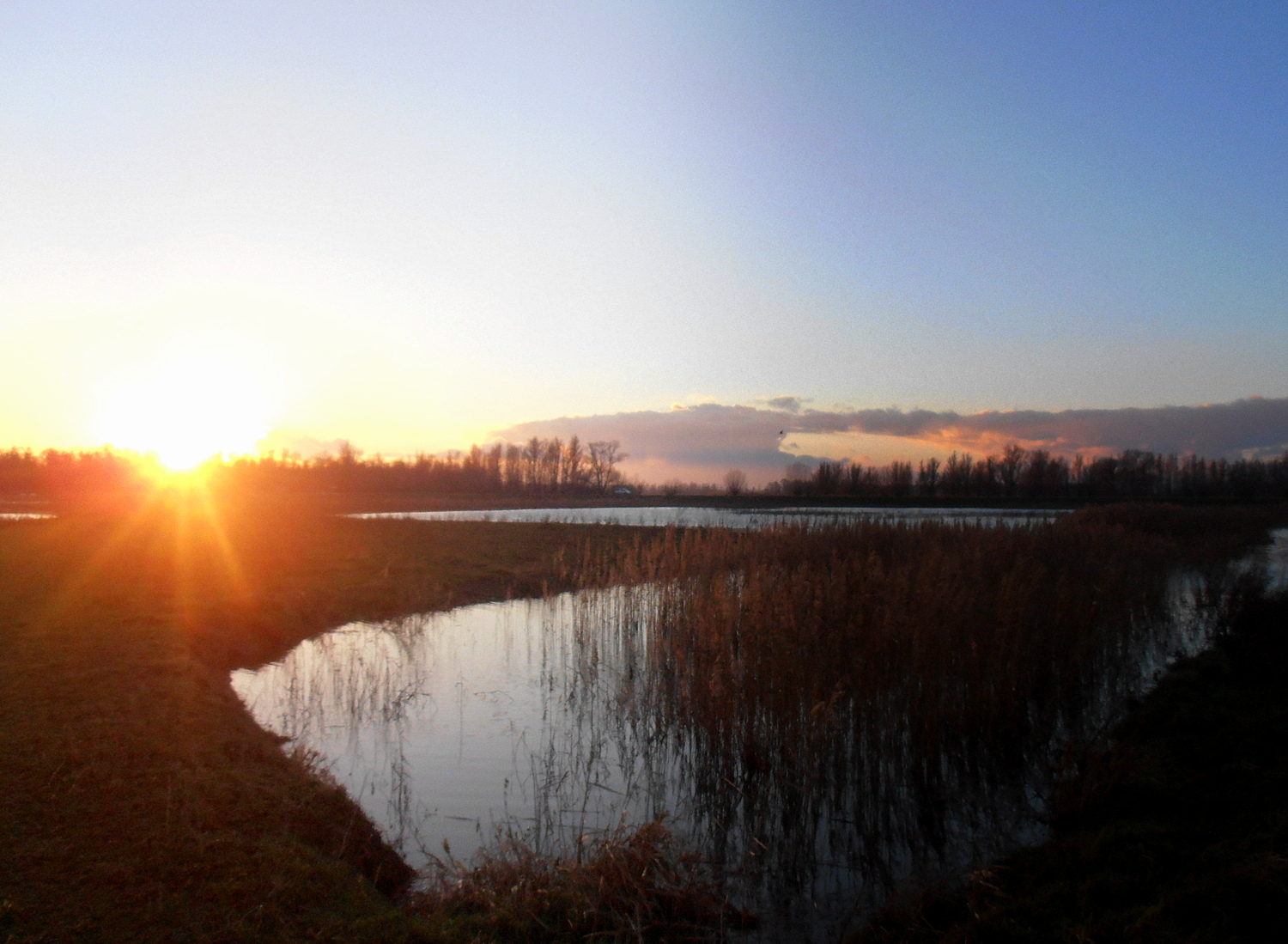 This is a photo or sound file made in De Biesbosch National Park in the Netherlands, with the main subject of the file in the category: landscapes